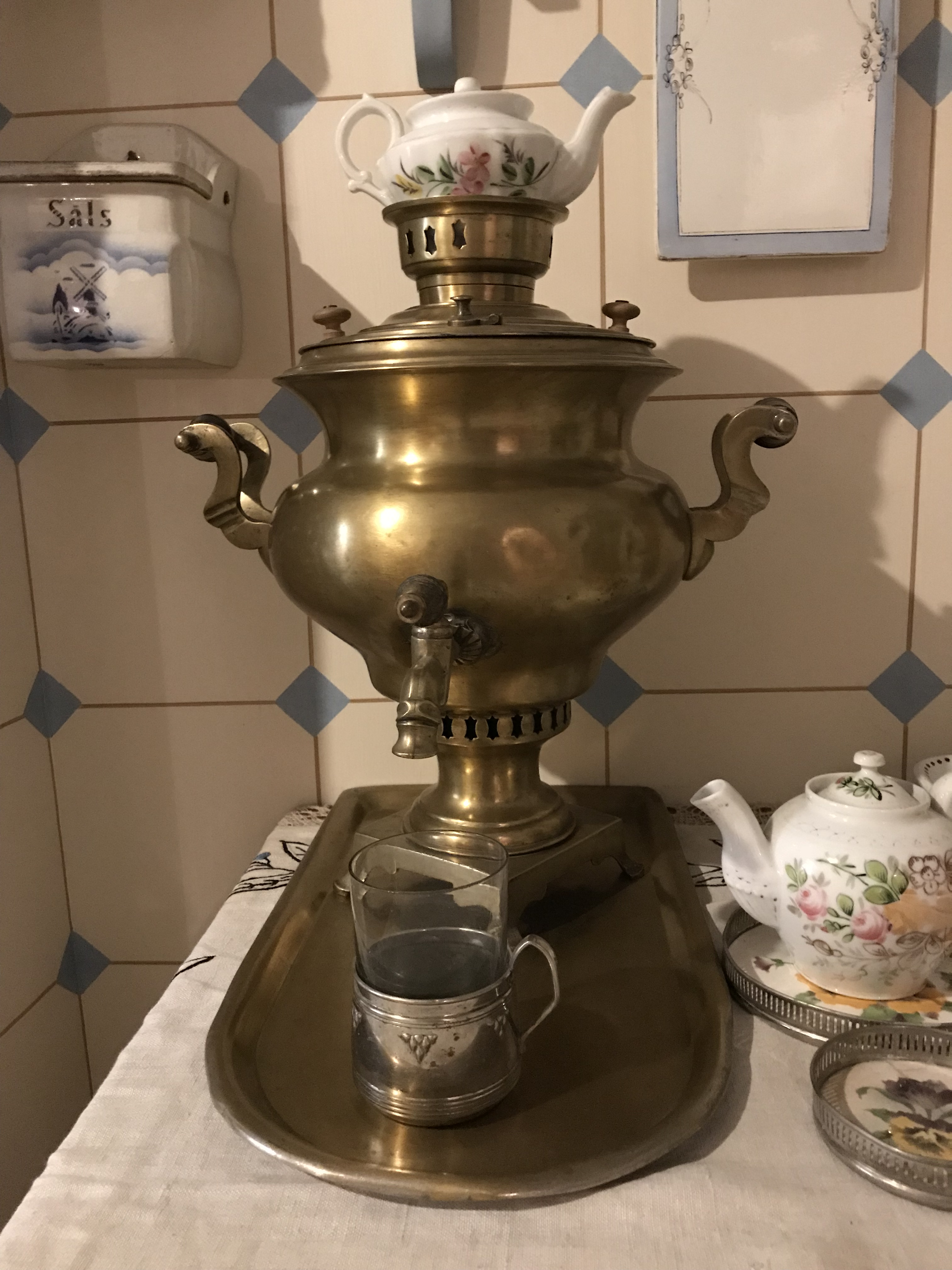 Samovar i köket till Romans Sutas och Aleksandra Beļcovas museum/minneslägenhet på Elizabetes iela 57a i Riga, Lettland, 10 maj 2018.